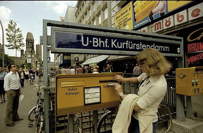 Kurfürstendamm underground station in 1978 (West Berlin, Germany); a woman puts a letter in a mail box.